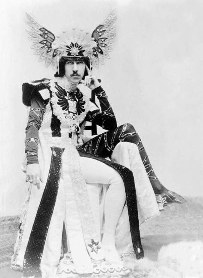 Photo portrait of Henry Paget, 5th Marquess of Anglesey by John Wickens